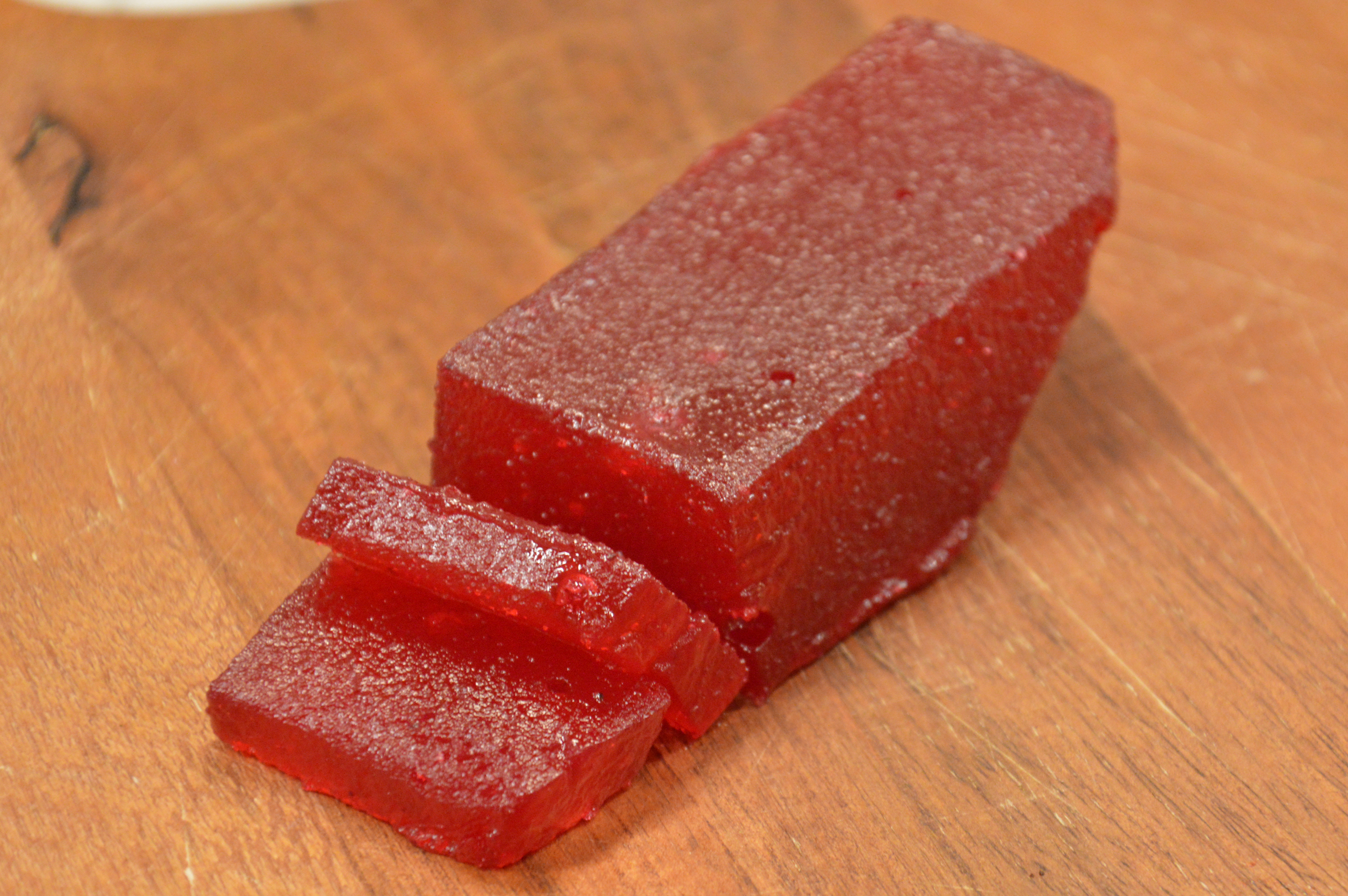 Gyümölcs íz, a dense Hungarian fruit jam sold in a slab form rather than a jar. Purchased at Lehel Csarnok in Budapest. During the Second World War, it became known as "Hitlerszalonna" owing to its vague similarity to bacon rind (szalonna)